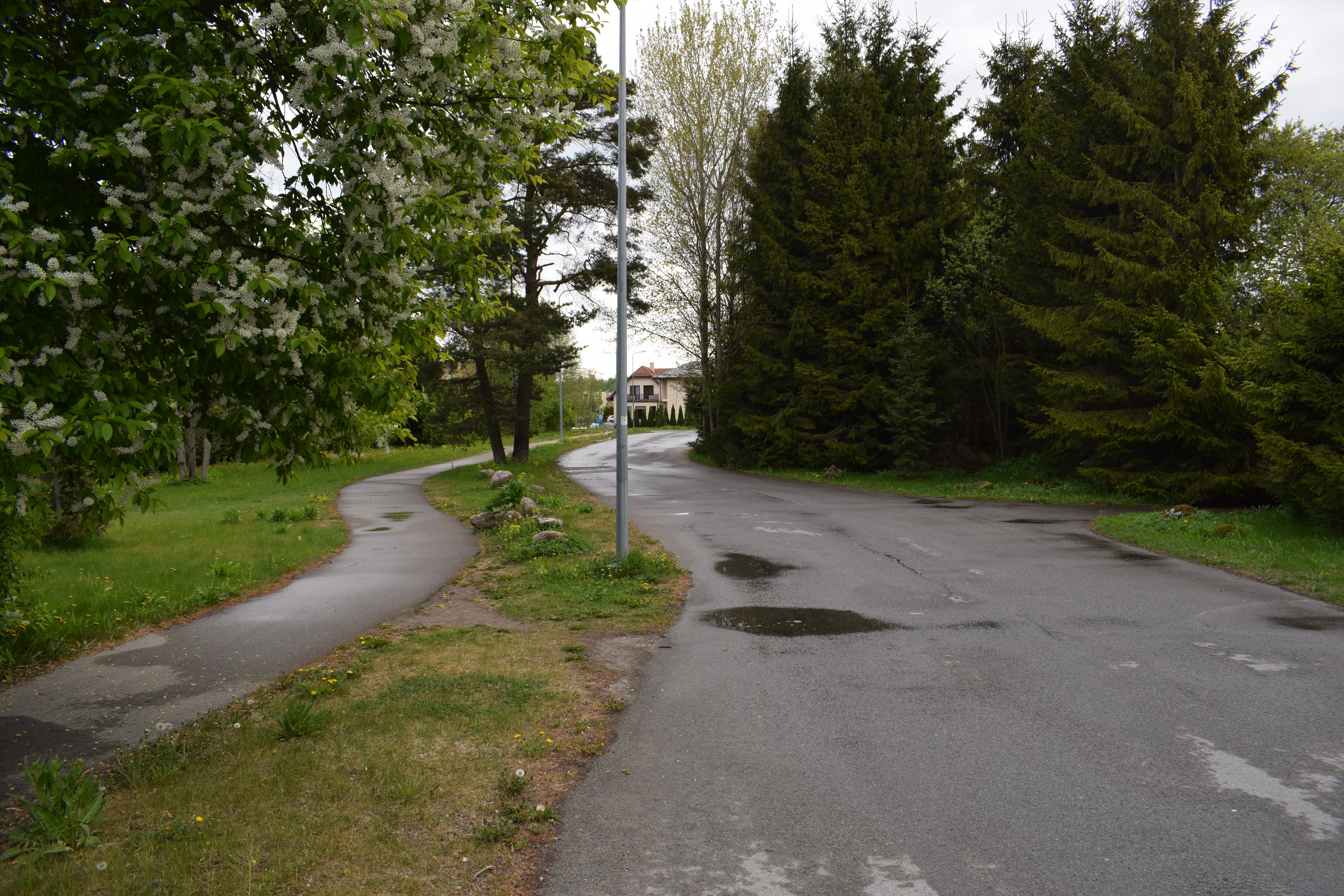 Uustalu street